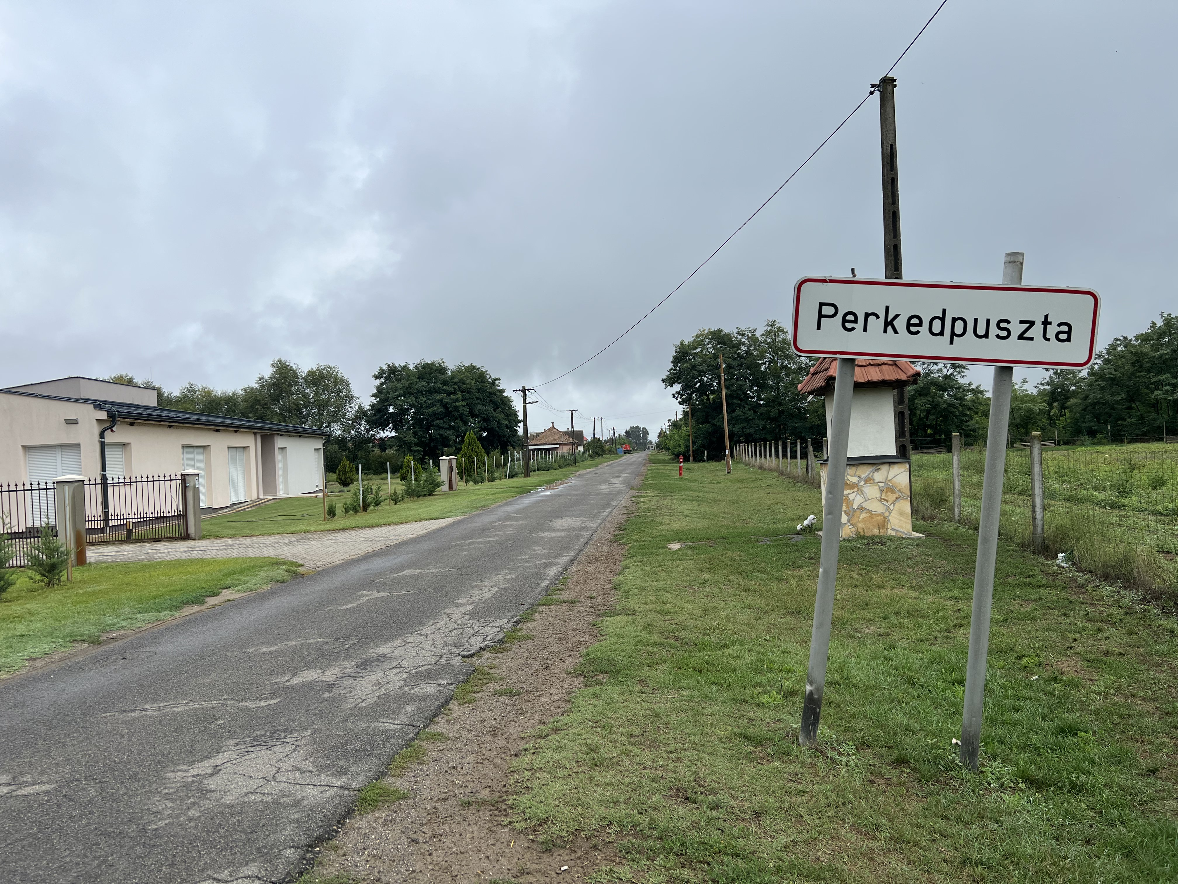 City limit of Perkedpuszta